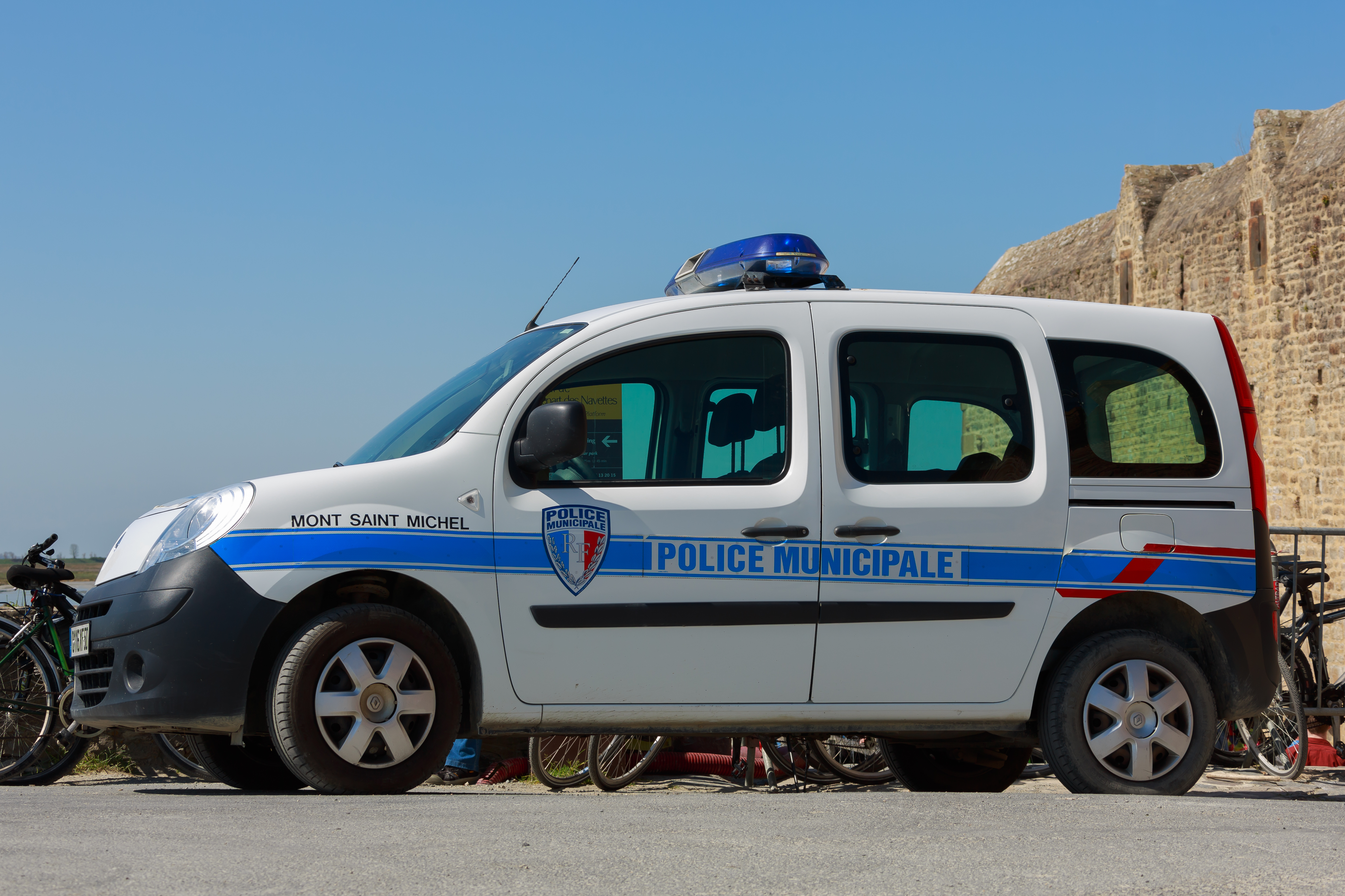 Le Mont-Saint-Michel, France: Police car of the Police municipale